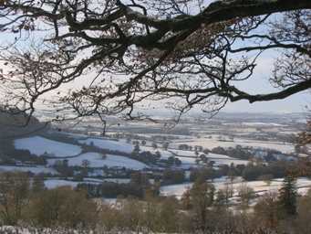 own work